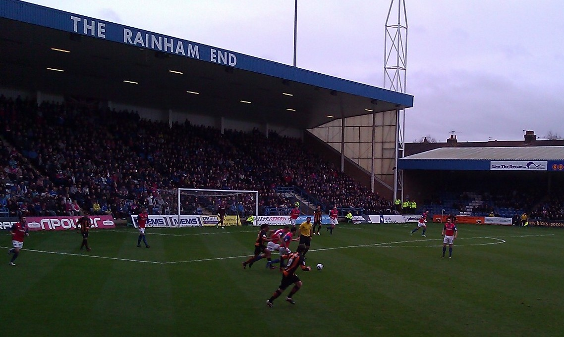 Gillingham F.C. vs Barnet F.C. on 26 December 2012. I took the picture myself. Summary Gillingham F.C. vs Barnet F.C. on 26 December 2012. I took the picture myself.